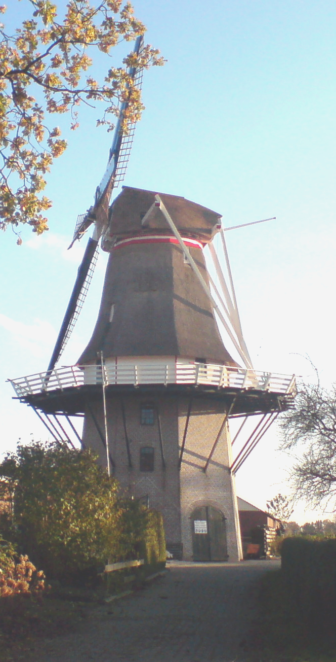 Other picture, see also Image:Massier-molen Nieuwleusen.jpg